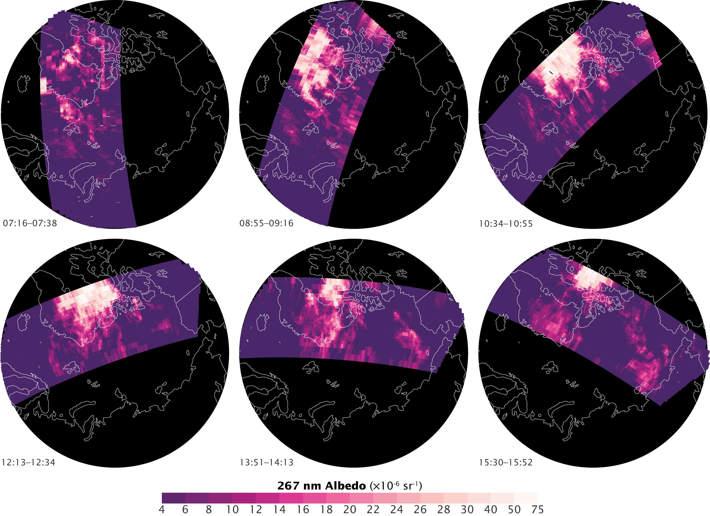 Images captured by the Ozone Monitoring Instrument (OMI) on NASA's Aura satellite. These images show OMI measurements of polar mesospheric clouds. The clouds, detectable because they are the only things that reflect light in this part of the atmosphere, are shown in white and pink. The Aura satellite travels in a polar orbit, circling from south to north as the Earth turns beneath it. As a result, the satellite gets several opportunities to image the poles every day. This series of images shows the clouds over six consecutive orbits between 7:16 and 15:52 Universal Time. Throughout the day, a wide area of polar mesospheric clouds developed over northern Greenland and Canada, peaking around 10:30 UTC (the third orbit).